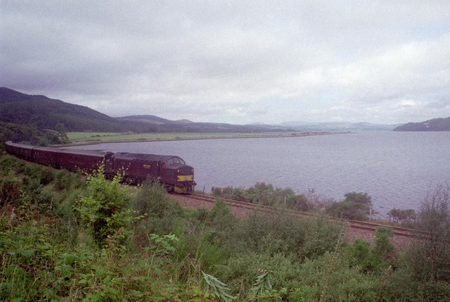 Royal Scotsman, The Royal Scotsman hauled by class 37 heading east along the Kyle of Sutherland.